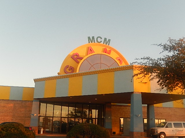 I took photo with Nikon camera of MCM Grand Hotel in Odessa, TX.